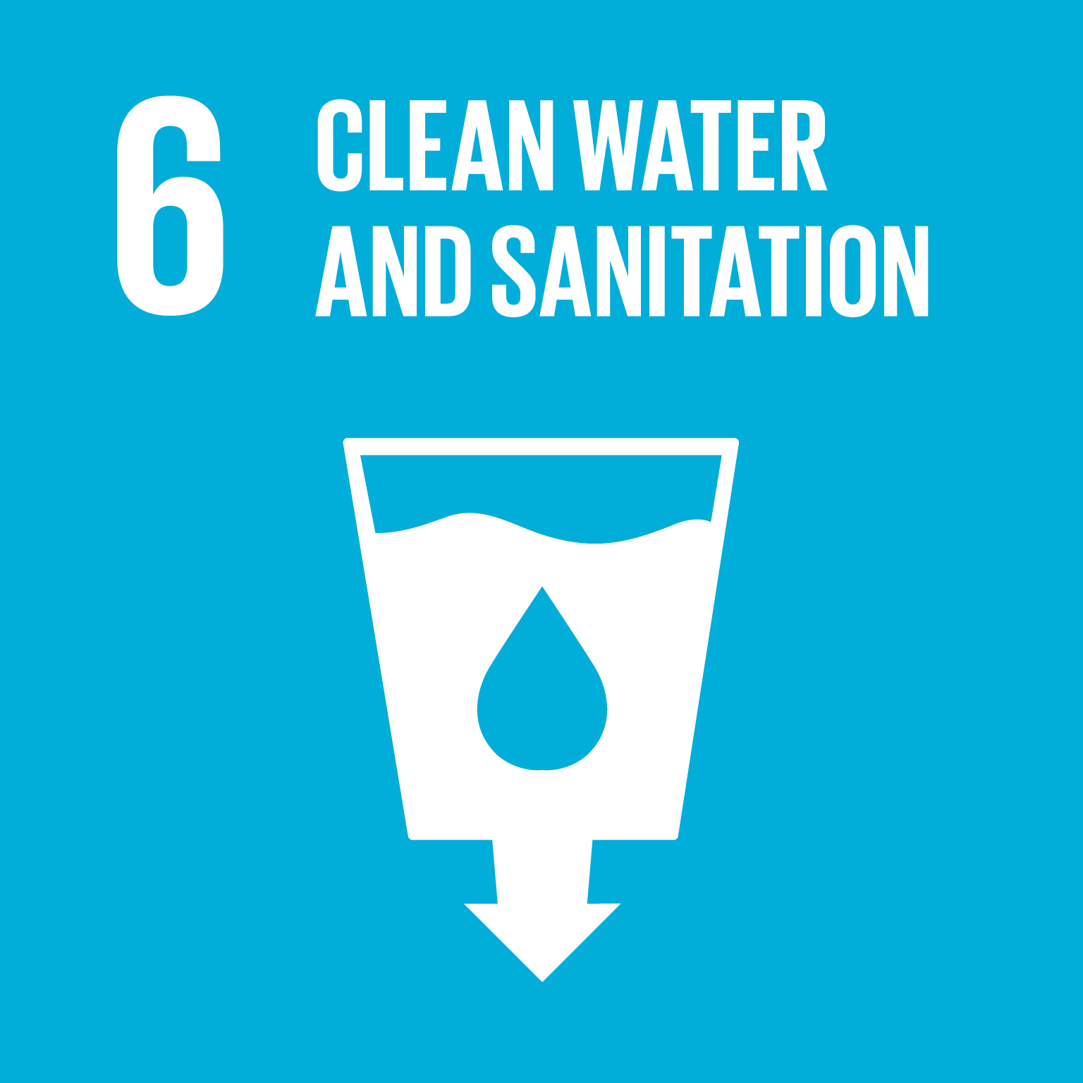 SDG6 Clean Water and SanitationRomână: Obiectivul de dezvoltare durabilă nr. 6: Apă curată și canalizare (în engleză)